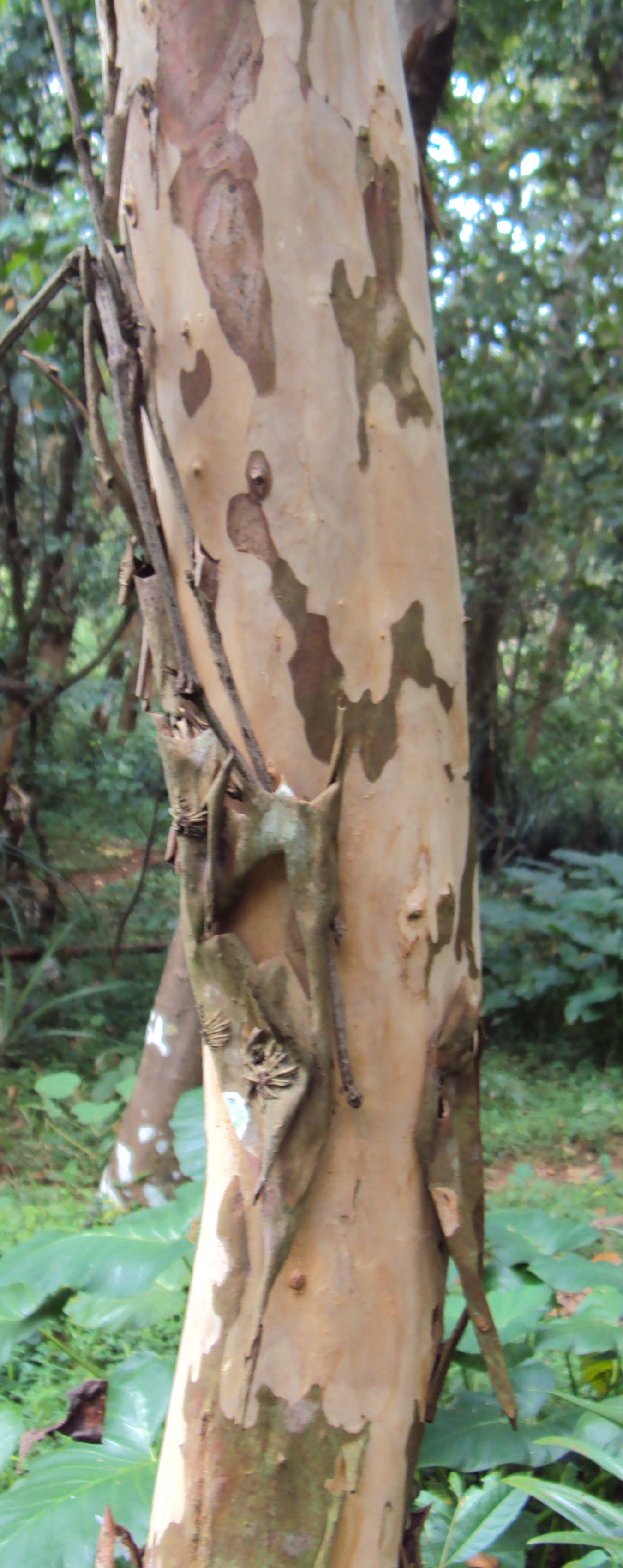 Guava bark